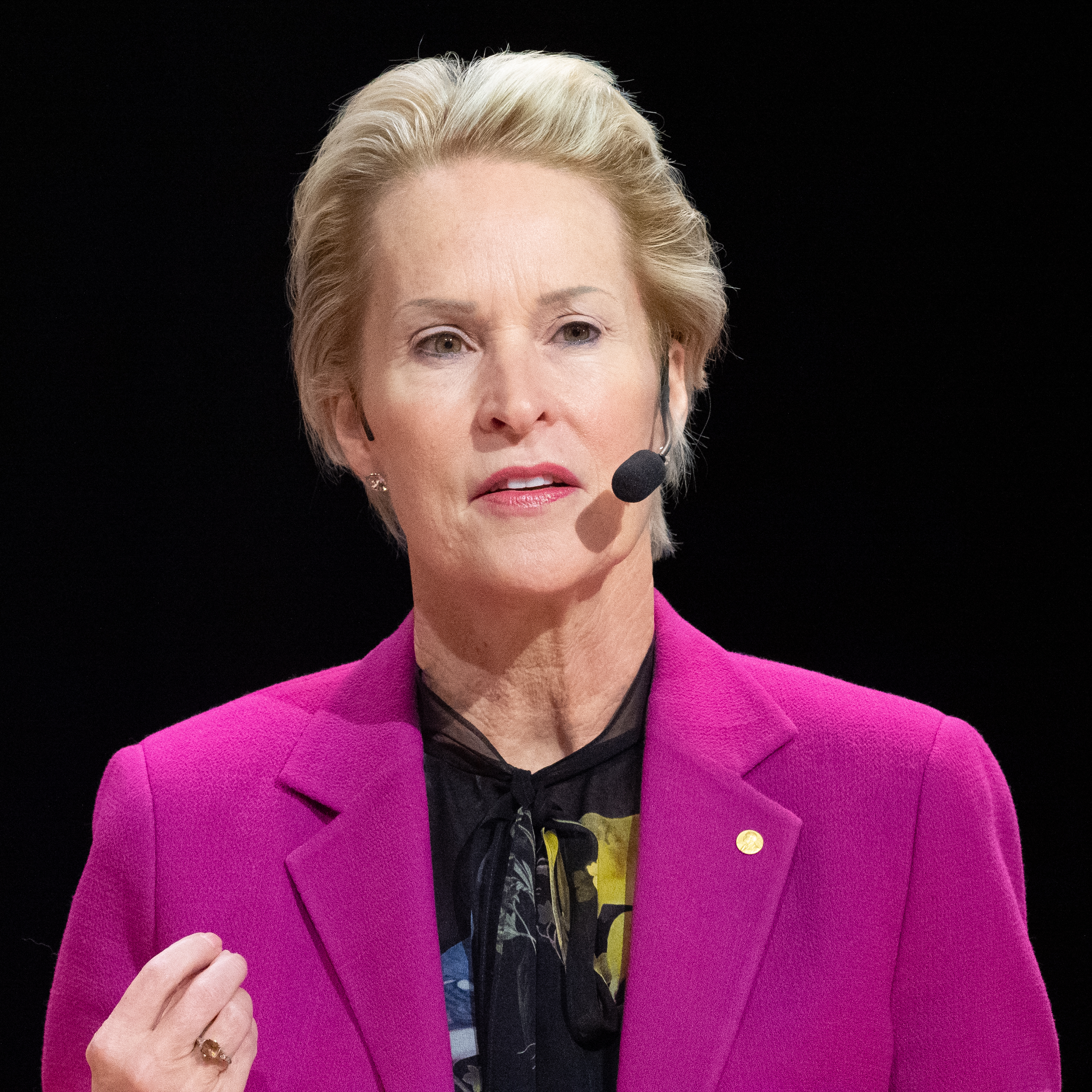 Nobel Laureates in Chemistry 2018, Stockholm, Sweden, December 2018